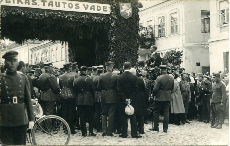 President Antanas Smetona public speech in Kęstutis Square in Ukmergė, Lithuania.